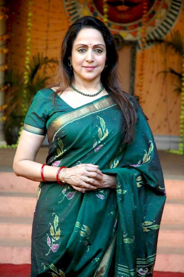 Bollywood actress Hema Malini